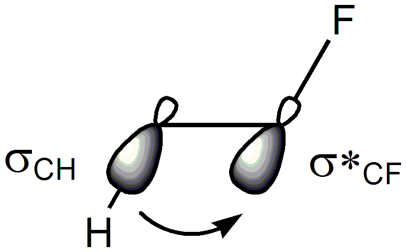 Hyperconjugation model for the gauche effect